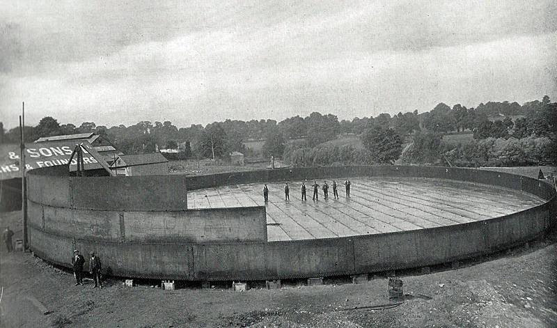 Cockey & Sons Ltd built gasometers. They were pre-assembled on the Garston site in Frome before dismantling and delivery by rail to their destination.